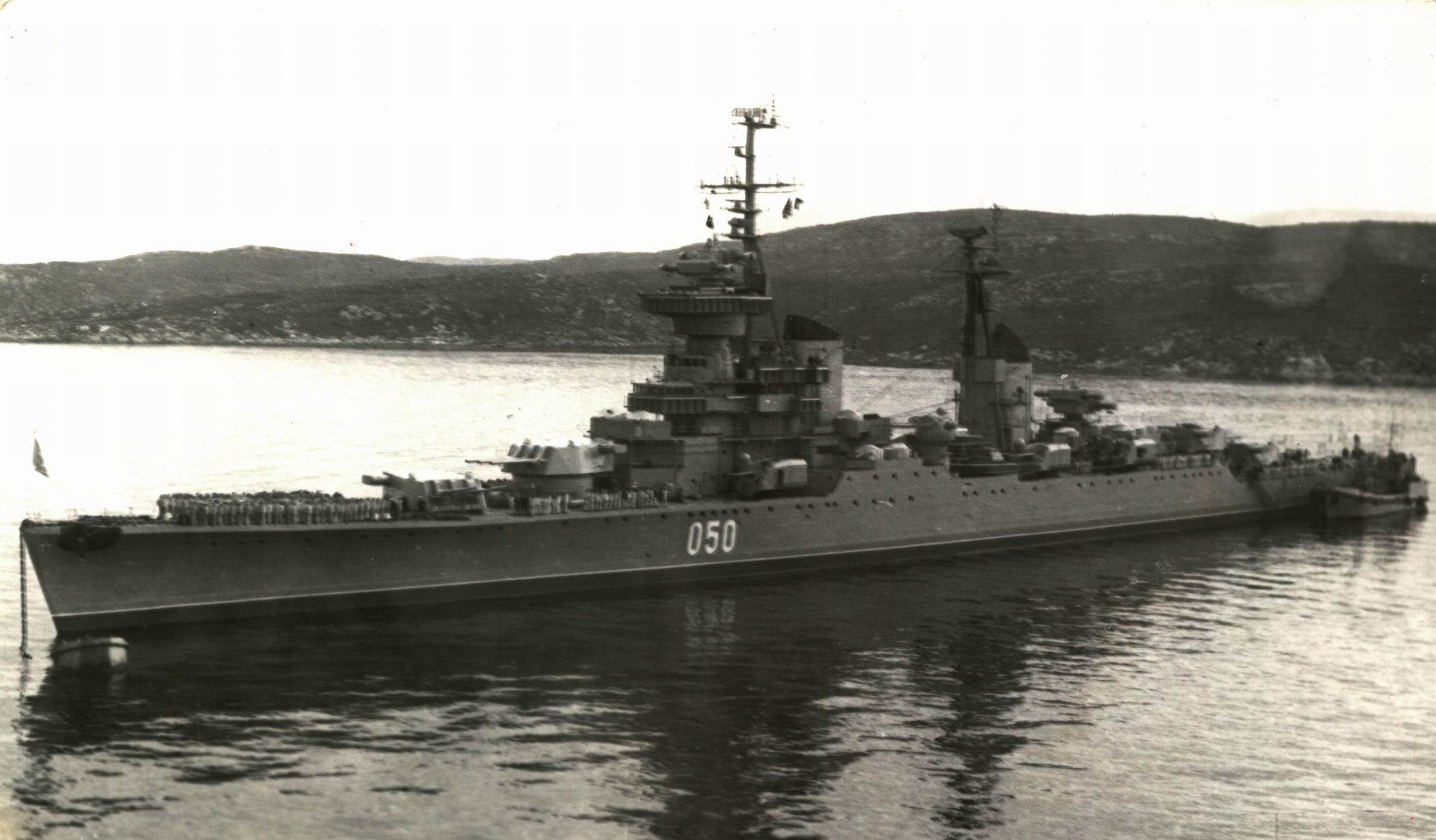 A Soviet Sverdlov-class cruiser at anchor at the Severomorsk Naval Base. Murmansk wore the pennant number "050" in 1978.